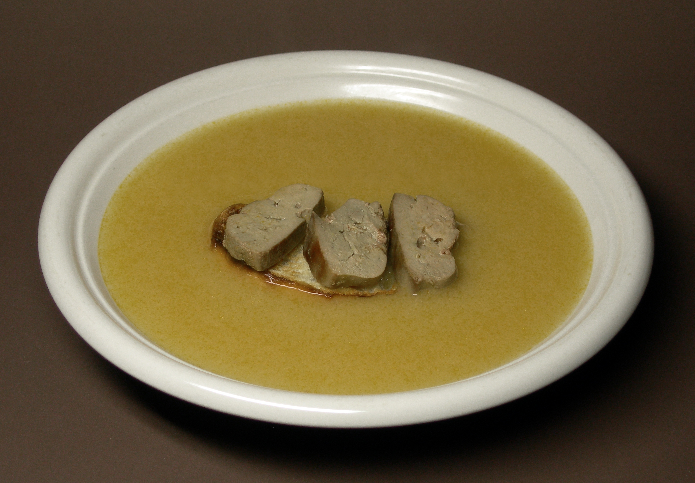 Faked Cockchafer-soup, „Mockchafer-Soup“, with toasted bread and liver (cockchafers were substituted by crabs).